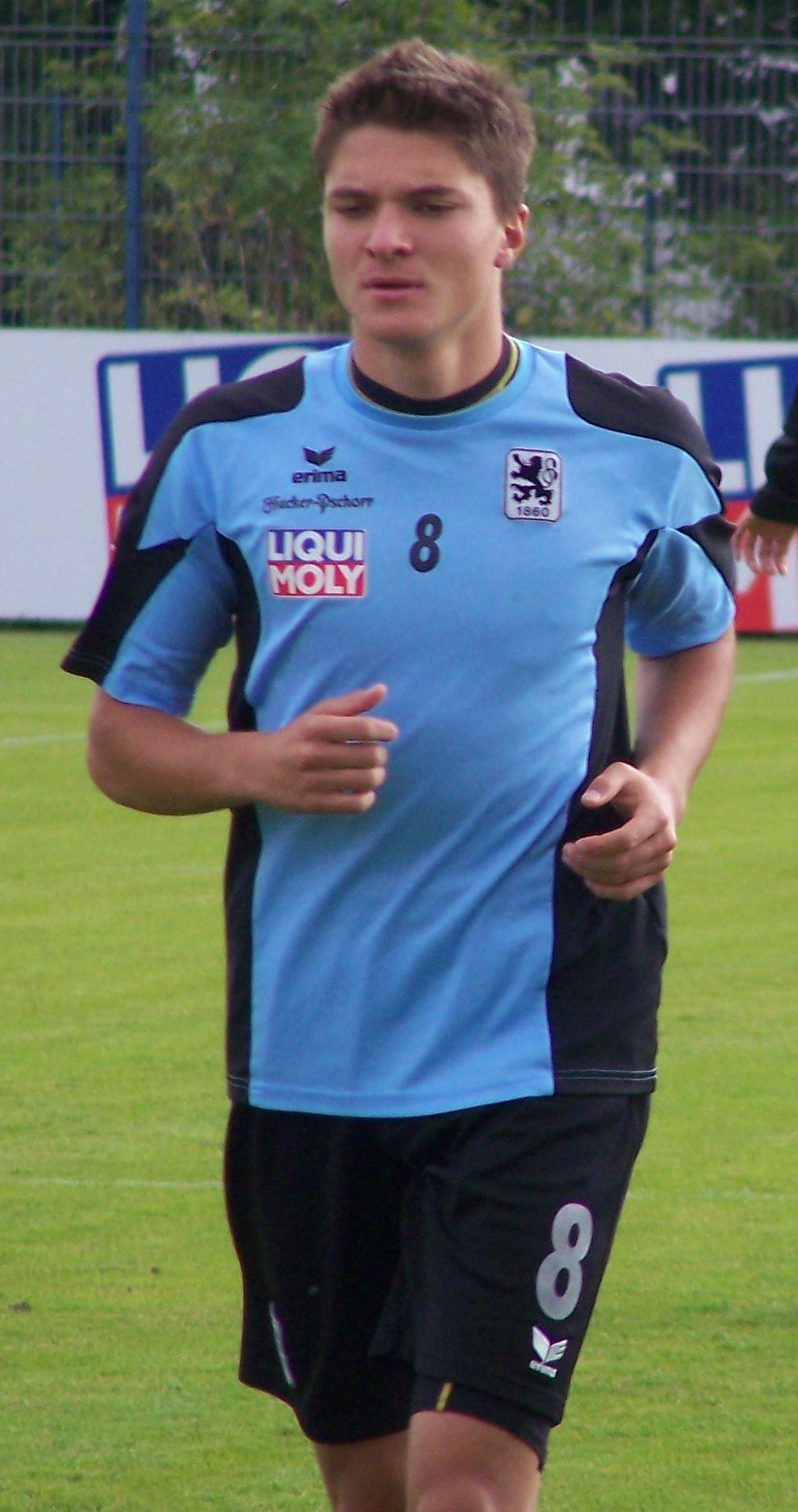 Aleks Ignjovski, 1860 munich, training